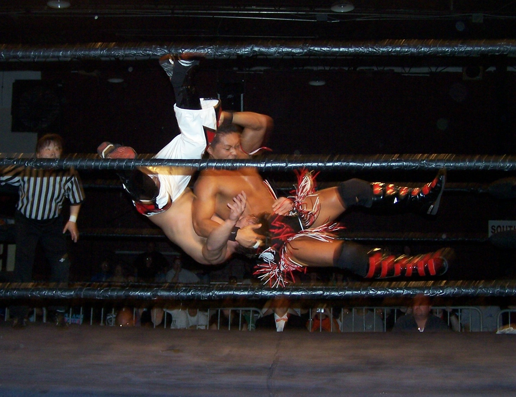 CIMA performing his finisher, Schwein, on Jack Evans at a PWU event.